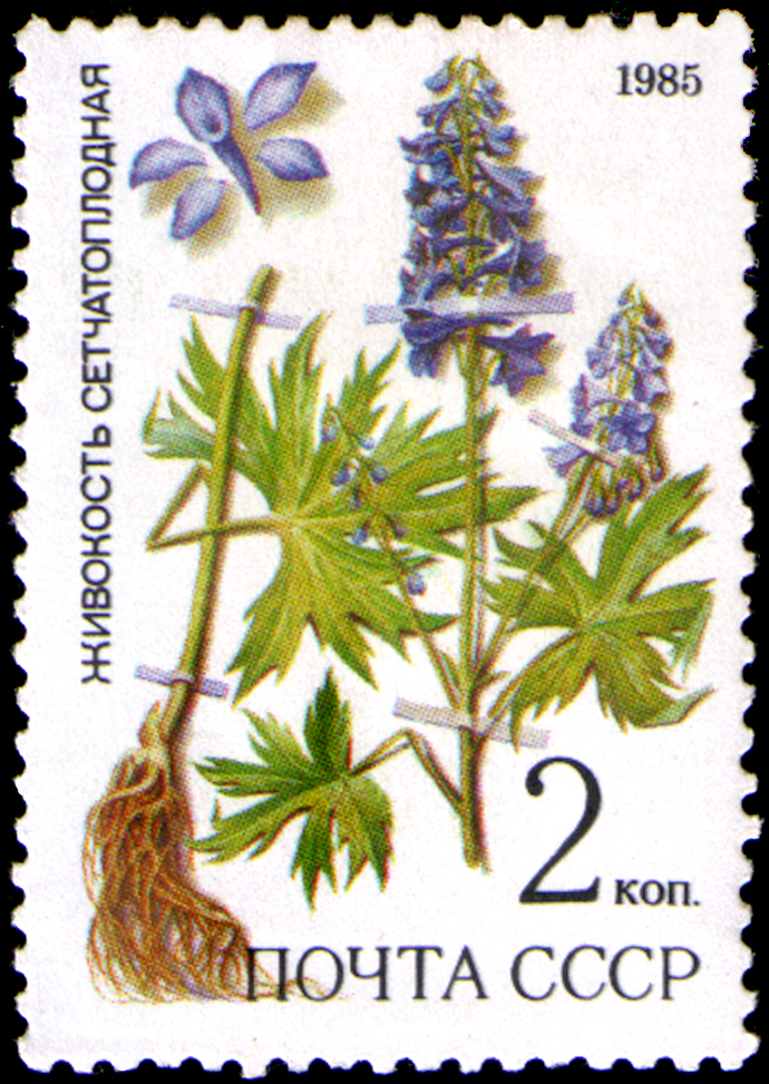 USSR stamp, Delphinium dictyocarpum, 1985, 2k.